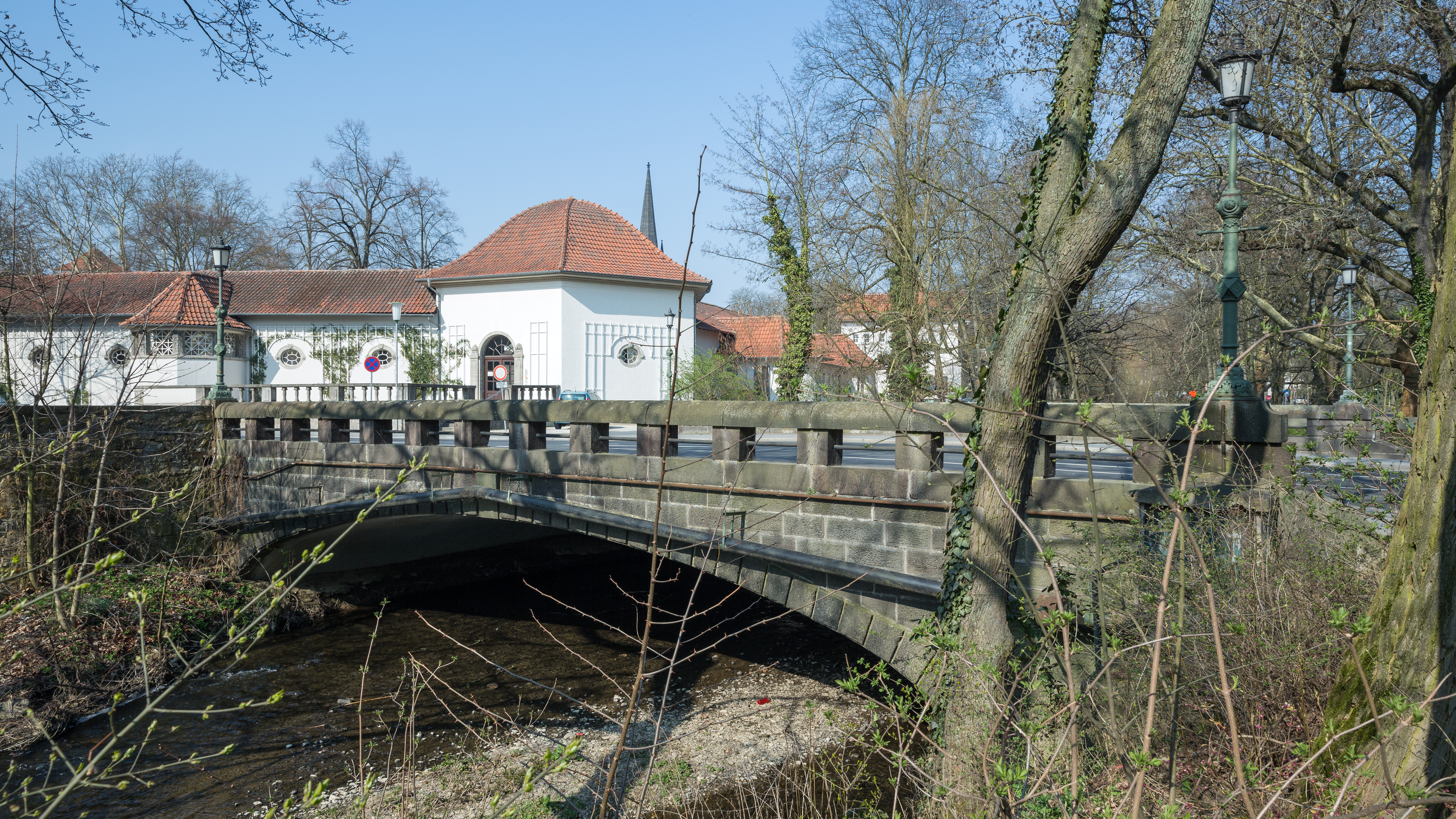 Bad Nauheim: Usa Bridge at the Ernst-Ludwig-Ring (Ernst Ludwig Belt) as seen from the southeast